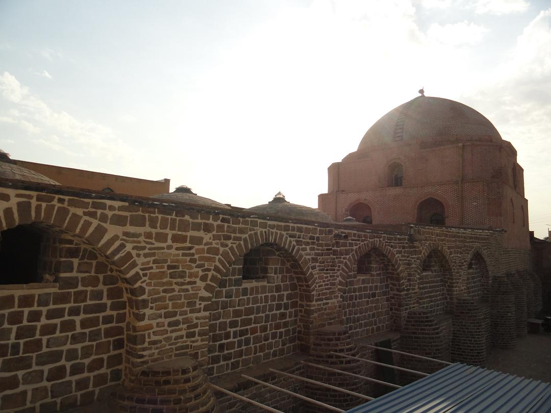 Jame mosque in Urmia